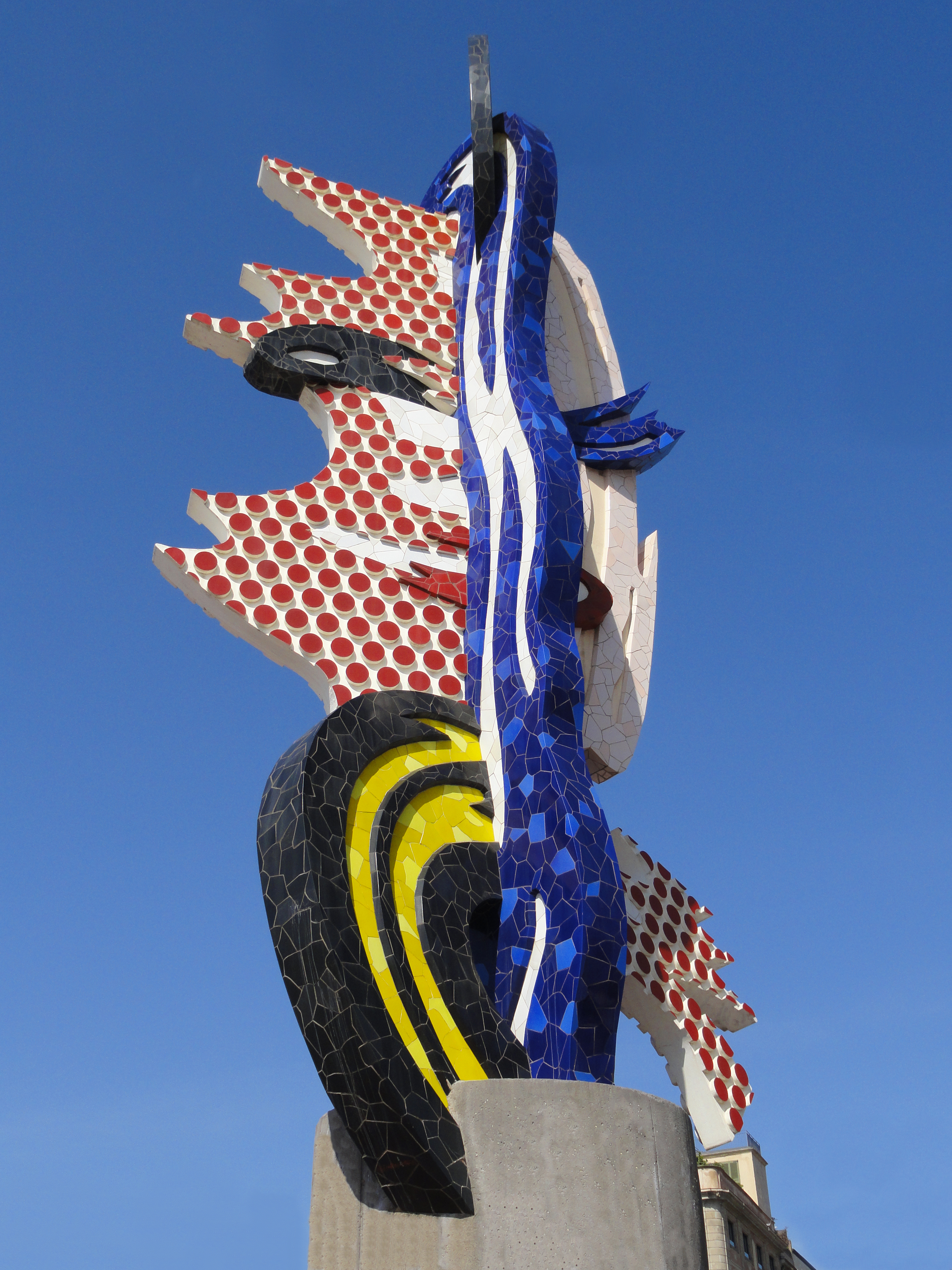 Roy Lichtenstein, Cap de Barcelona, sculpture, mixed media, Barcelona. This is technically the verso (back) of the sculpture.